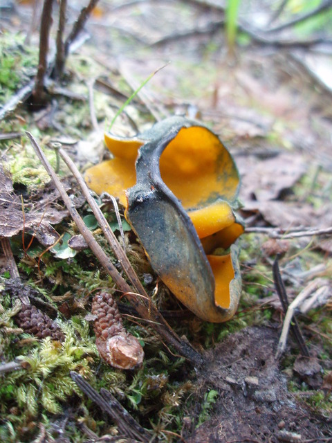 The cup fungus Caloscypha fulgens,, (Pers.) Boud. Photographed in Gallatin Co., Montana, USA.